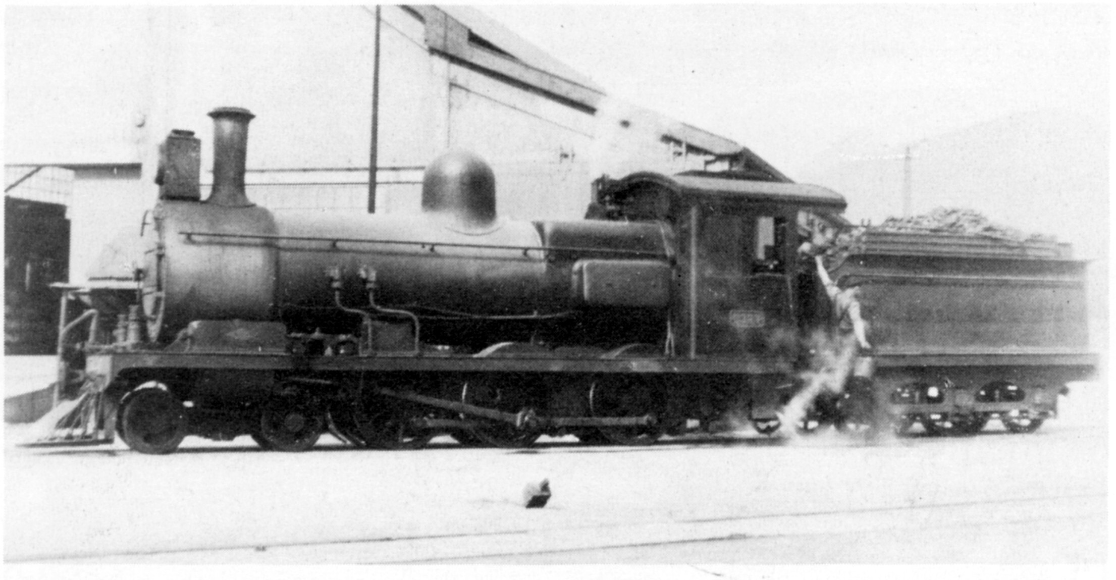 Cape Government Railways 5th Class 4-6-0 no. 127, then OVGS no. 50, then CSAR no. 327, then SAR no. 0327 Reboilered with Belpaire firebox and Drummond tubes by the CSAR